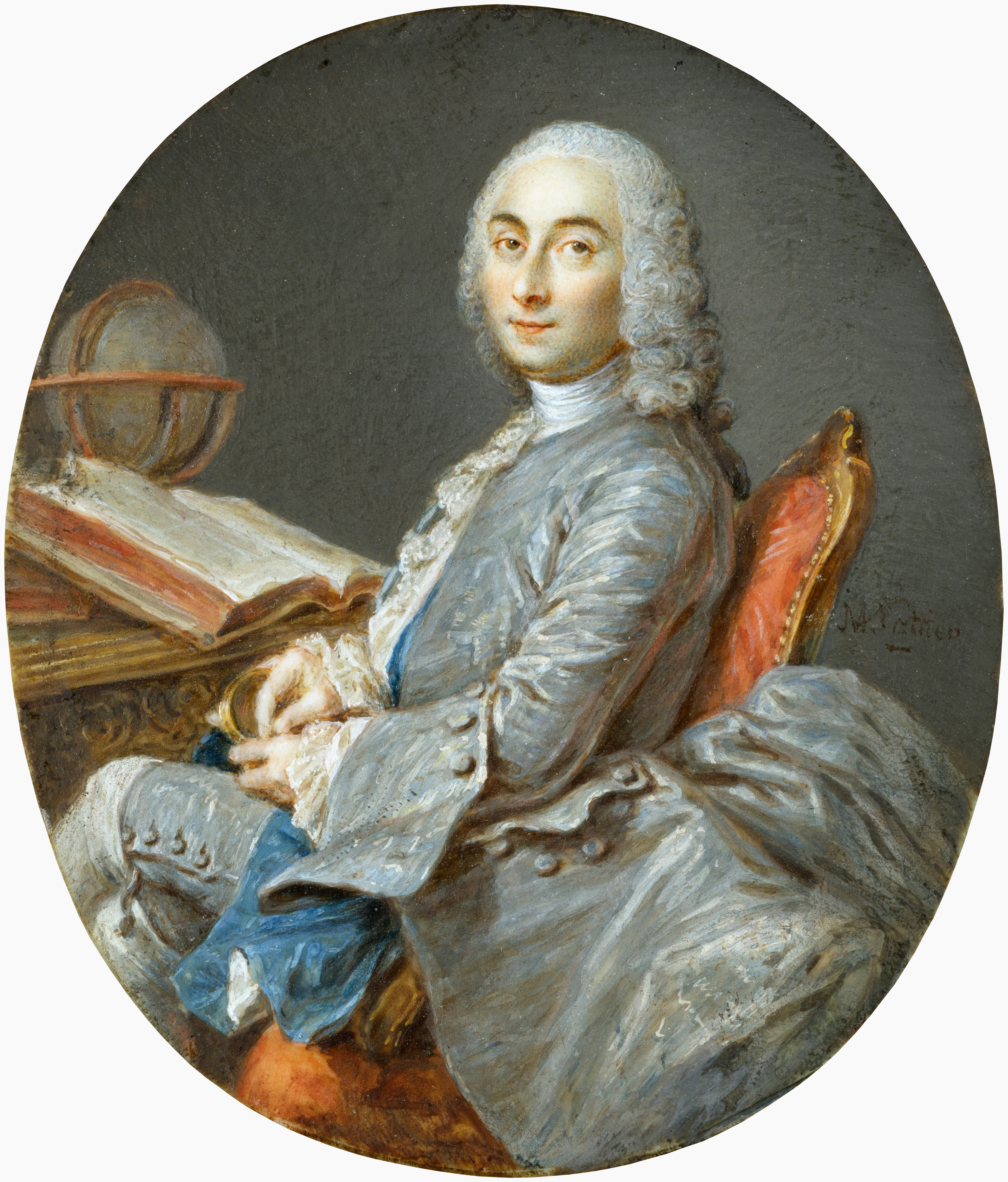 Miniature portrait of French astronomer César-François Cassini (Cassini III) (1714-1784)